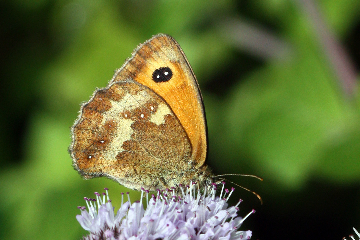 Gatekeeper butterfly (Pyronia tithonus) female, Wolvercote, Oxfordshire